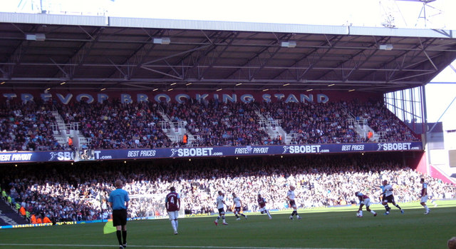 Sir Trevor Brooking Stand, West Ham United FC, near to East Ham, Newham, Great Britain.